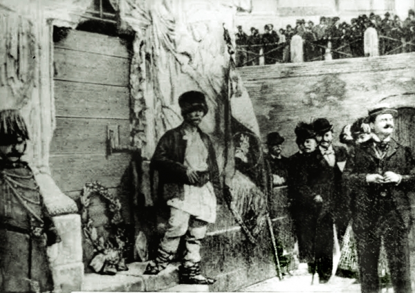 Badea Gheorghe Cartan at Rome, at the base of Trajan Column.